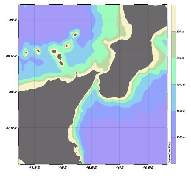 Straits of Messina Batimetry --Edd48 13:10, 30 August 2006 (UTC)